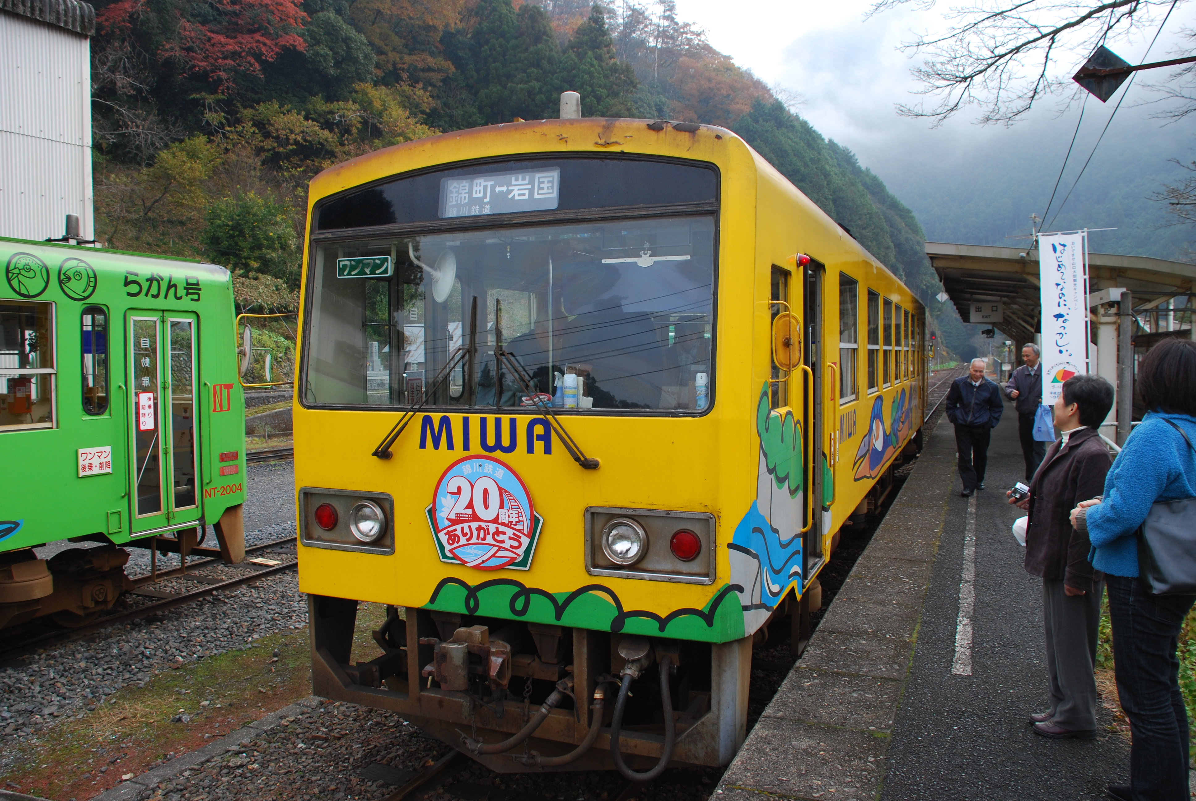 Nishikigawa Seiryu Line car at Nishikicho Station in Yamaguchi Prefecture.